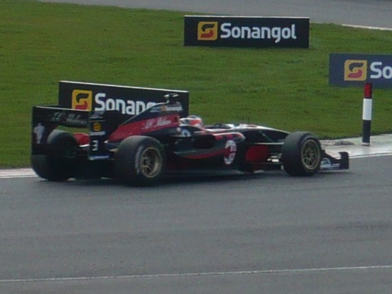 The AC Milan Superleague Formula car. Photo taken by me at Silverstone Circuit during its 2010 SF round.